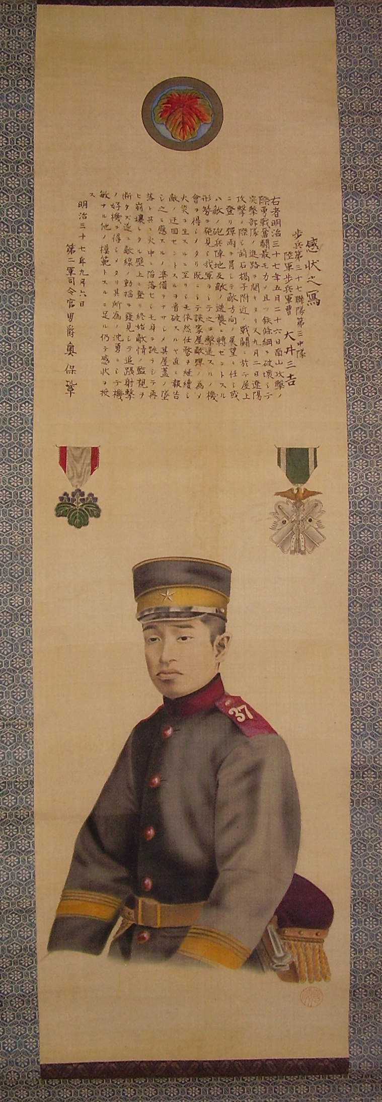 portrait of a meiji-era japanese soldier, a commemorative scroll with honours-citation relating to his actions during the russo-japanese war (unclear if this is a posthumous-memorial scroll or not, translation needed); wittig collection, painting-05; reference shot 01.